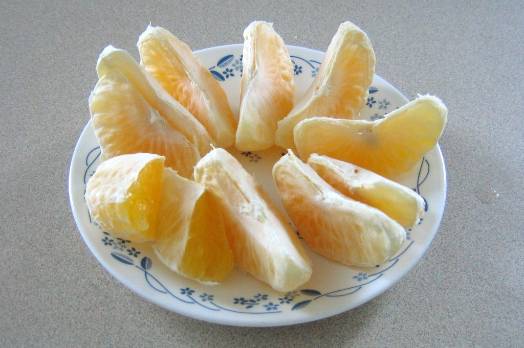 An ugli fruit, peeled and separated.